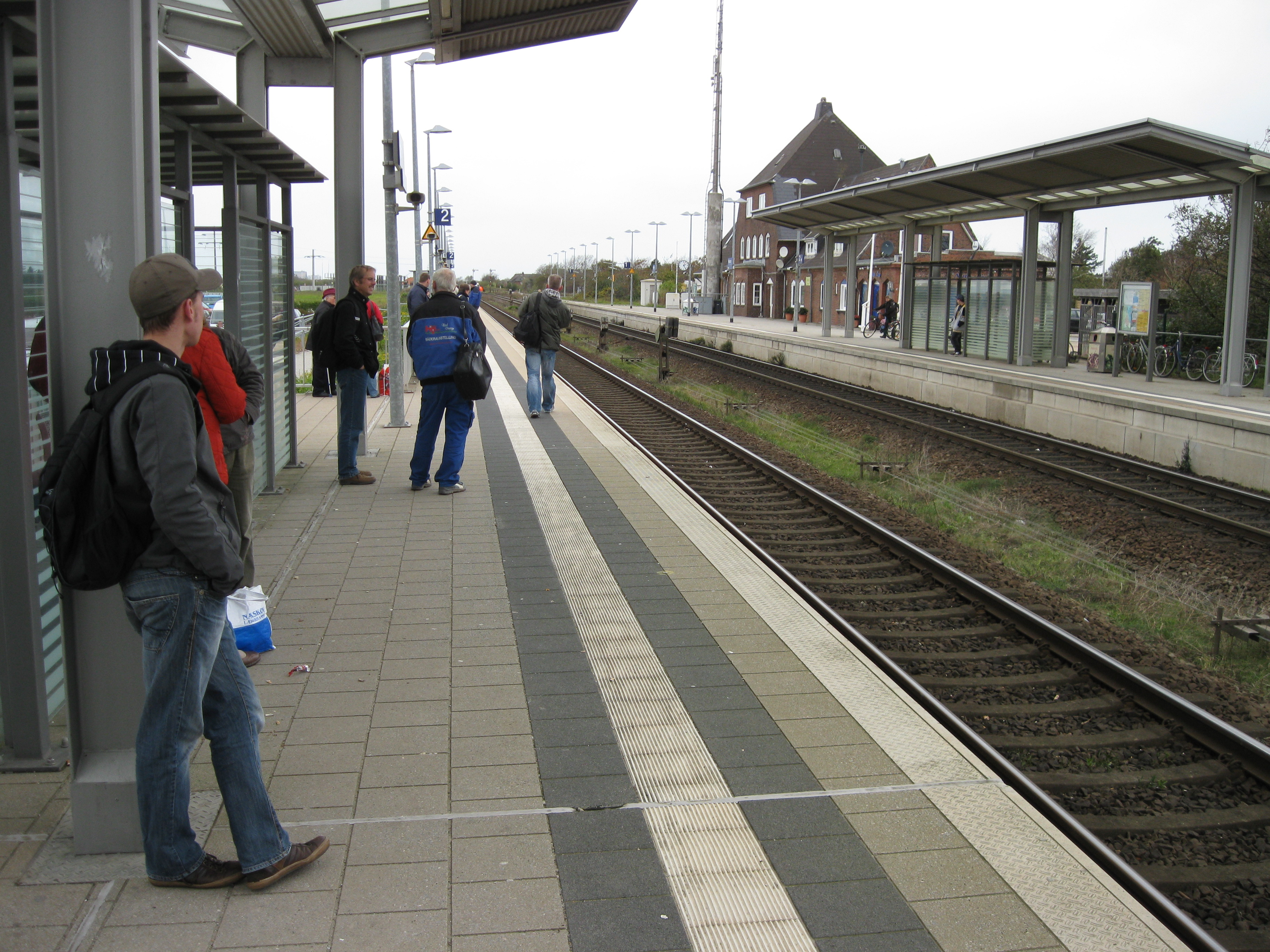 Keitum Station, Island of Sylt, Germany